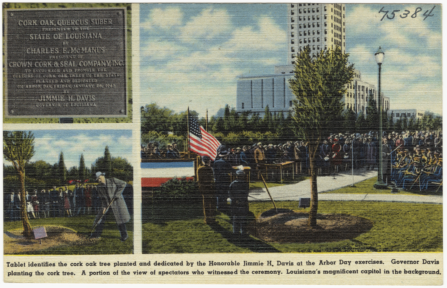 File name: 06_10_014098a Title: Tablet identifies the cork oak tree planted and dedicated by the Honorable Jimmie H. Davis at the Arbor Day exercises. Governor Davis planting the cork tree. A portion of the view of spectators who witnessed the ceremony. Louisiana's magnificent capitol is the background. Created/Published: Tichnor Bros. Inc., Boston, Mass. Date issued: c 1944 - 1948 Physical description: 1 print (postcard) : linen texture, color ; 3 1/2 x 5 1/2 in. Genre: Postcards Notes: Title from item. Collection: The Tichnor Brothers Collection Location: Boston Public Library, Print Department Rights: No known restrictions